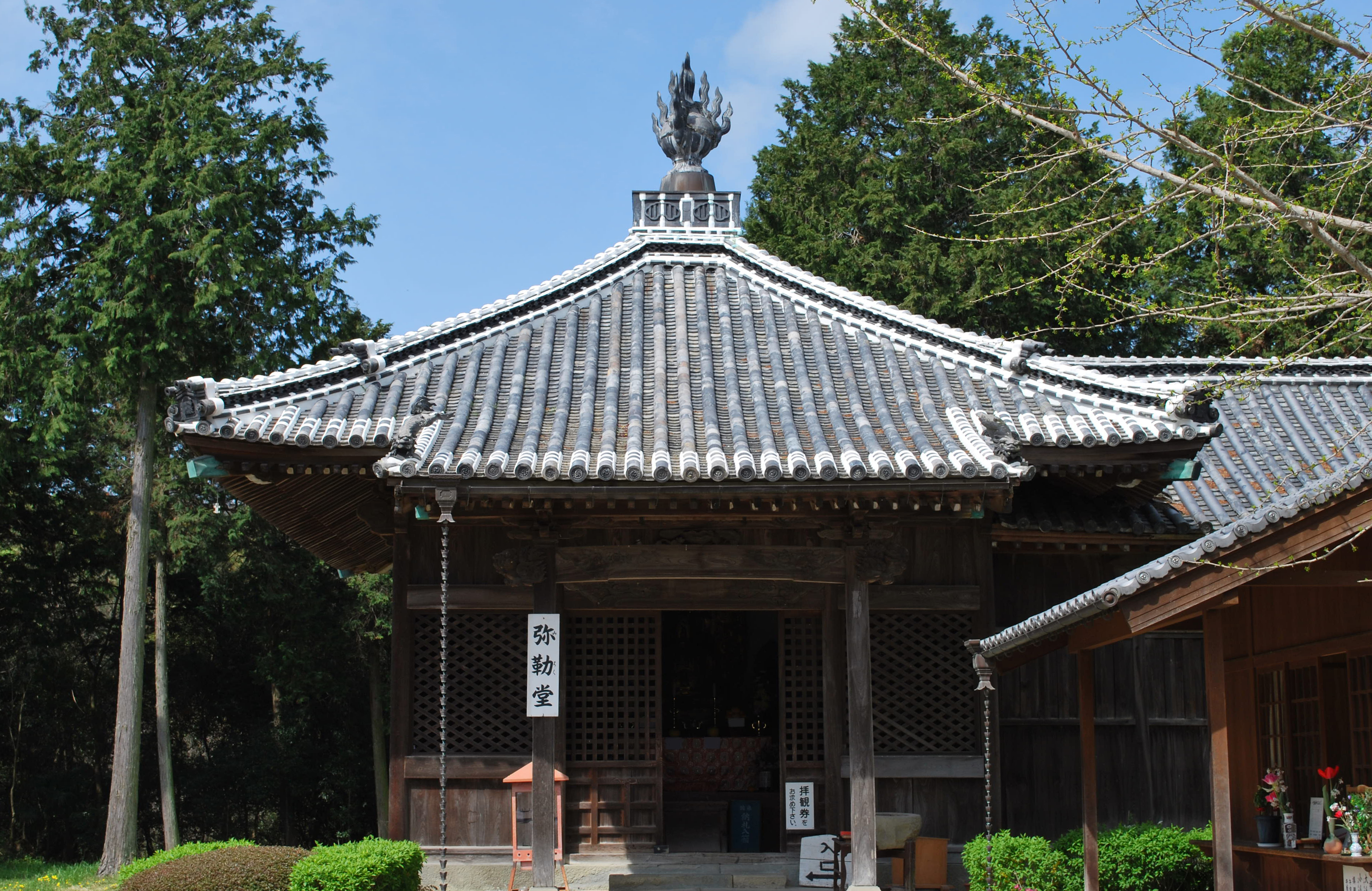 Miroku-dō, Gohyaku Rakan